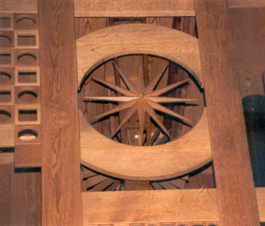 Zimbelstern in a pipe organ.